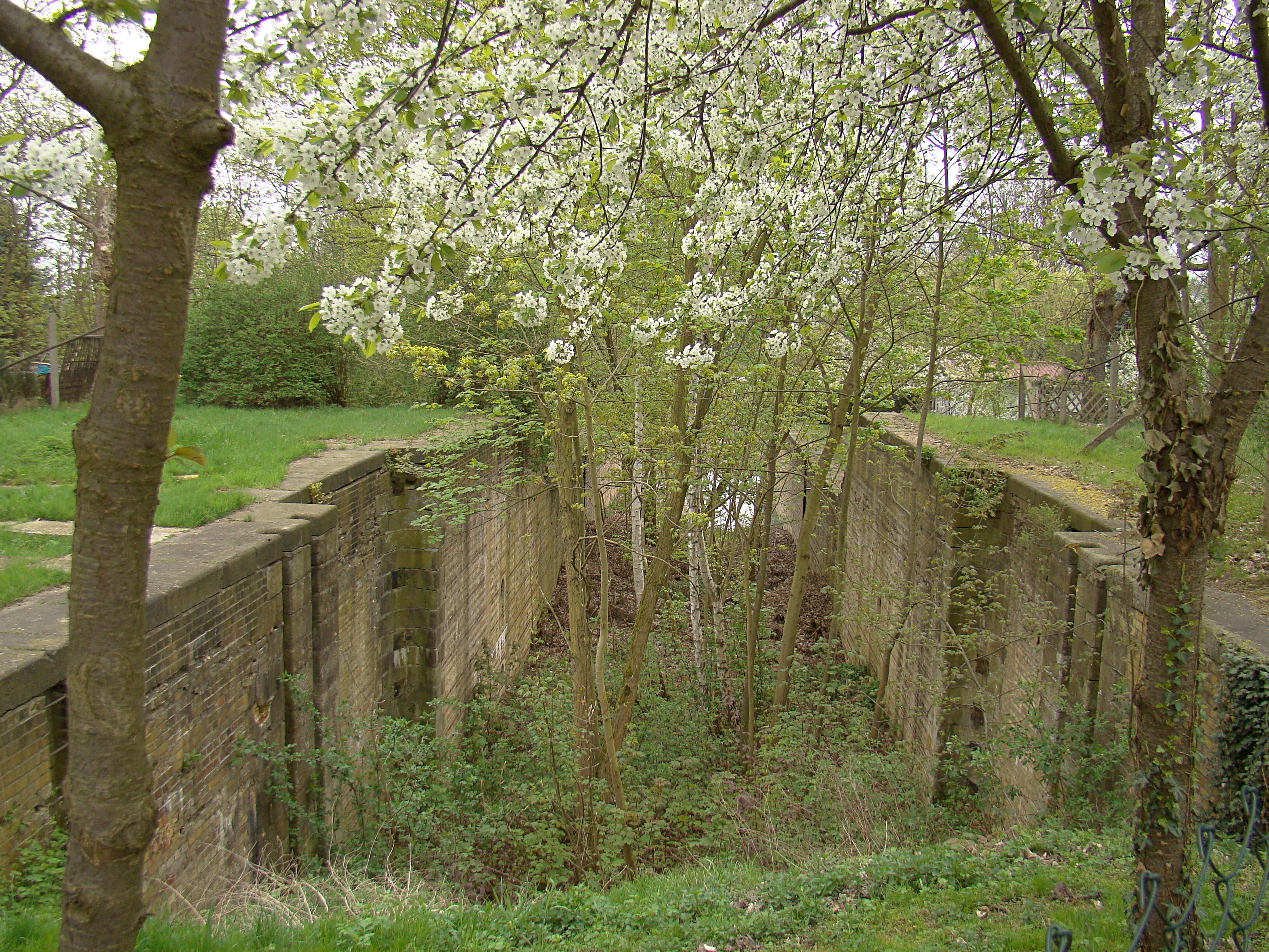 Old sluice at Niegripp, municipality of Burg bei Magdeburg